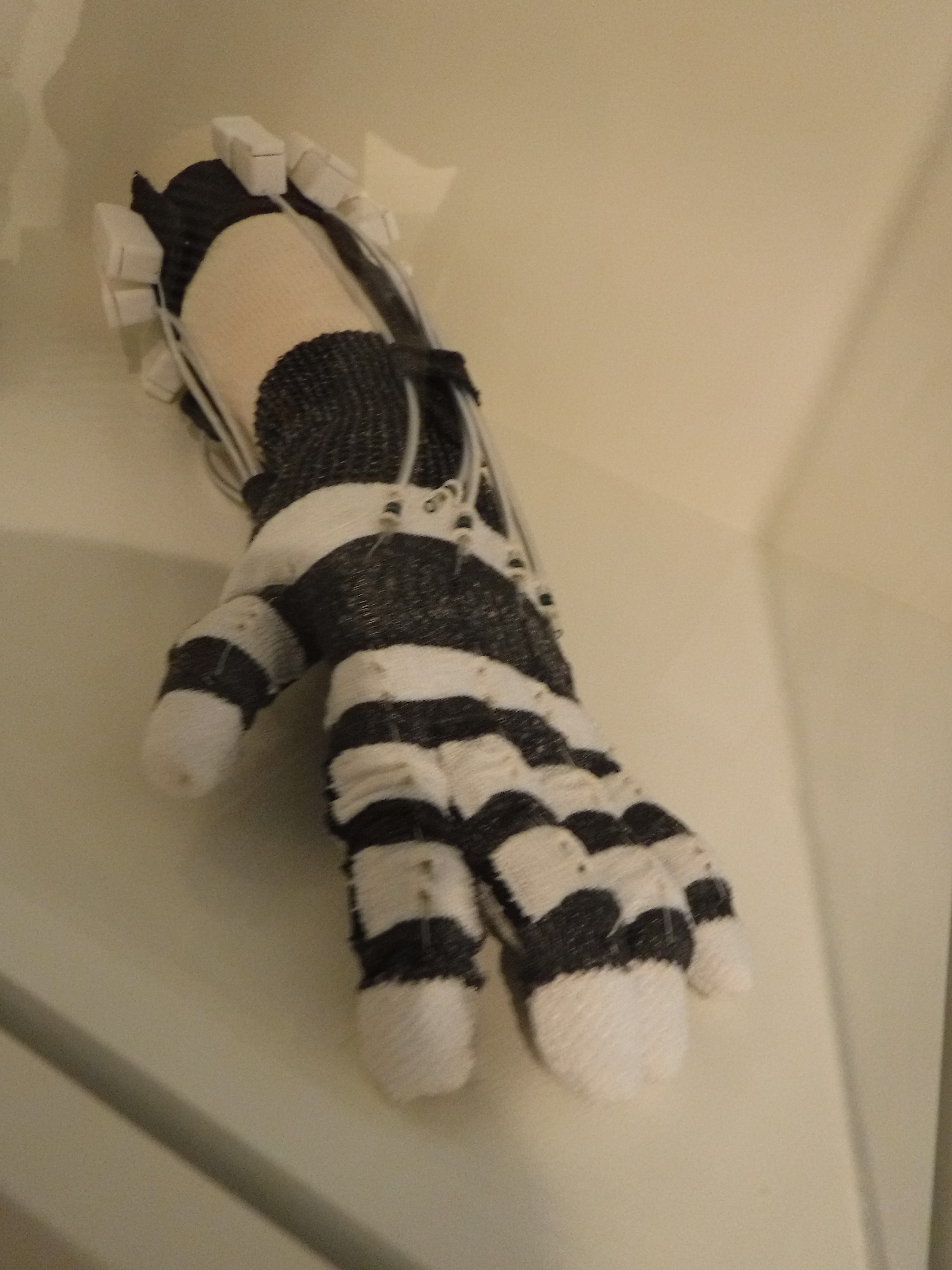 Exo-Skin Soft Haptic exoskeletal interface, developed by Shima Seiki Haute Technology Laboratory of Drexel University, displayed as part of the museum exhibition Second Skin: The Science of Stretch at the Chemical Heritage Foundation, on view from November 4, 2016 to May 13, 2017. The knitted glove is woven of fibers of nylon, spandex, and PET, and then heated to solidify fibers in the support segments. It can be programmed to move a person's hand through a series of exercises. At the same time it gathers data to create a 3D model of movements and adjust motion.